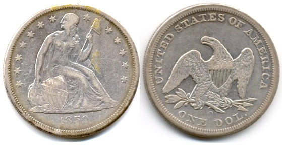 1859 dollar coin struck by New Orleans Mint.